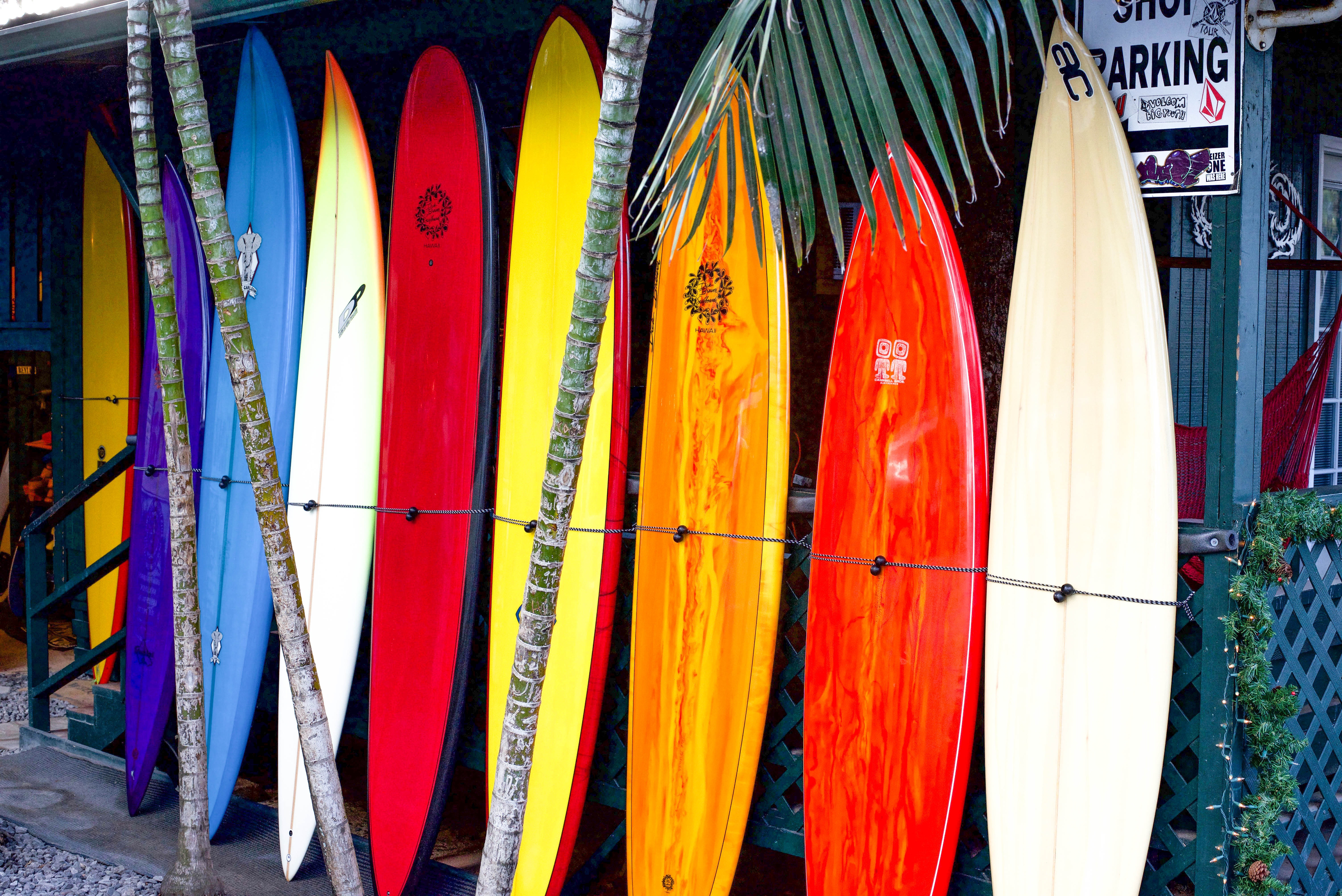 Technology of surfboard